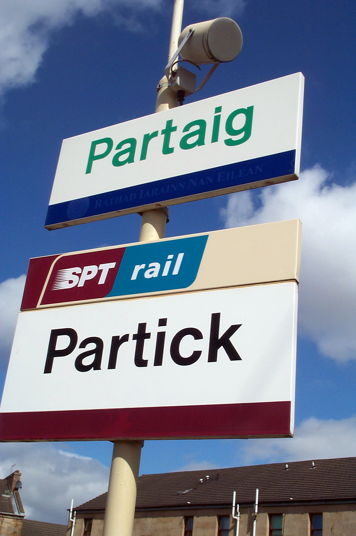 Bilingual sign at the Partick railway station, Glasgow. The Gaelic being placed by the West Highland Line.